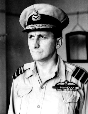 Probably Australia. c. August 1945. Informal portrait of Air Vice Marshal George Jones, Chief of Staff, RAAF, who accompanied General Sir Thomas Blamey in the official Australian party to Japan for the signing of the surrender terms.